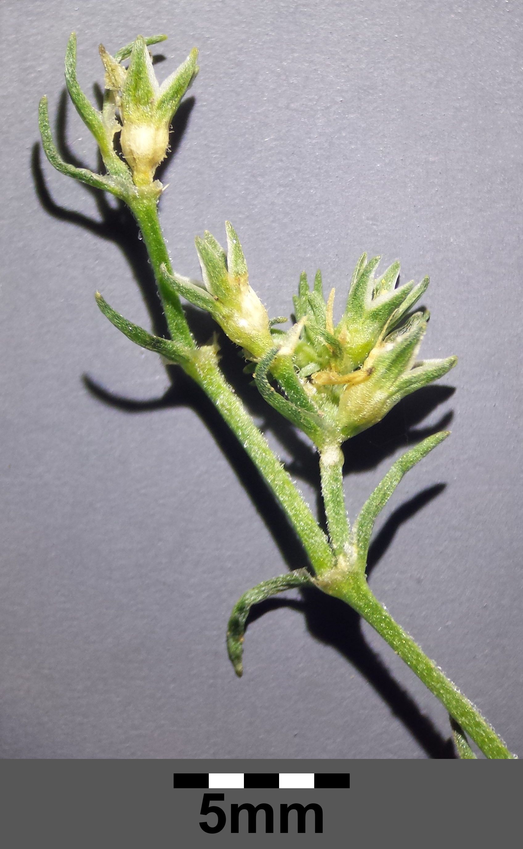 Inflorescence/infructescence Taxonym: Scleranthus annuus s. str. ss Fischer et al. EfÖLS 2008 ISBN 978-3-85474-187-9 Location: near Heumühle next to Rappottenstein, district Zwettl, Lower Austria - ca. 700 m a.s.l. Habitat: gritty place (crystalline rock)